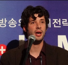 David Cohn. from 'TIM Forum(Trend + Issue in Media Forum)' 2011